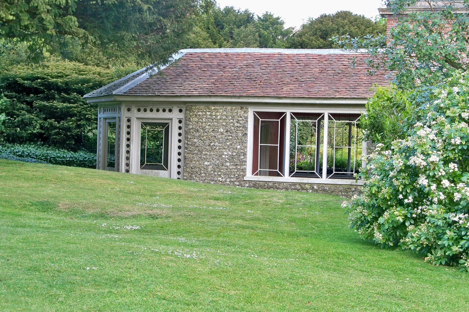 Game larder at Uppark, Sussex. Designed by Humphry Repton